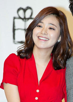 Lee Young-eun at The Wedding Scheme (tvN, 2012) premiere, on March 30, 2012